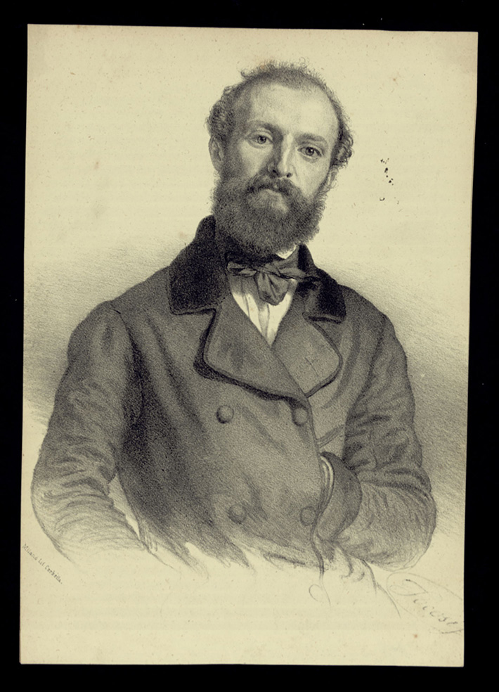 Portrait of Angelo Panzini, composer (1820-1886), before 1862.